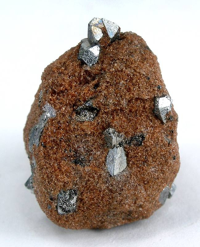 Löllingite Locality: Broken Hill, Yancowinna County, New South Wales, Australia (Locality at ) Size: 2.4 x 2.2 x 2.0 cm. Sharp, lustrous lollingite (or arsenopyrite?) crystals to 4 mm on matrix. Ex. Rice Northwest Museum Collection.